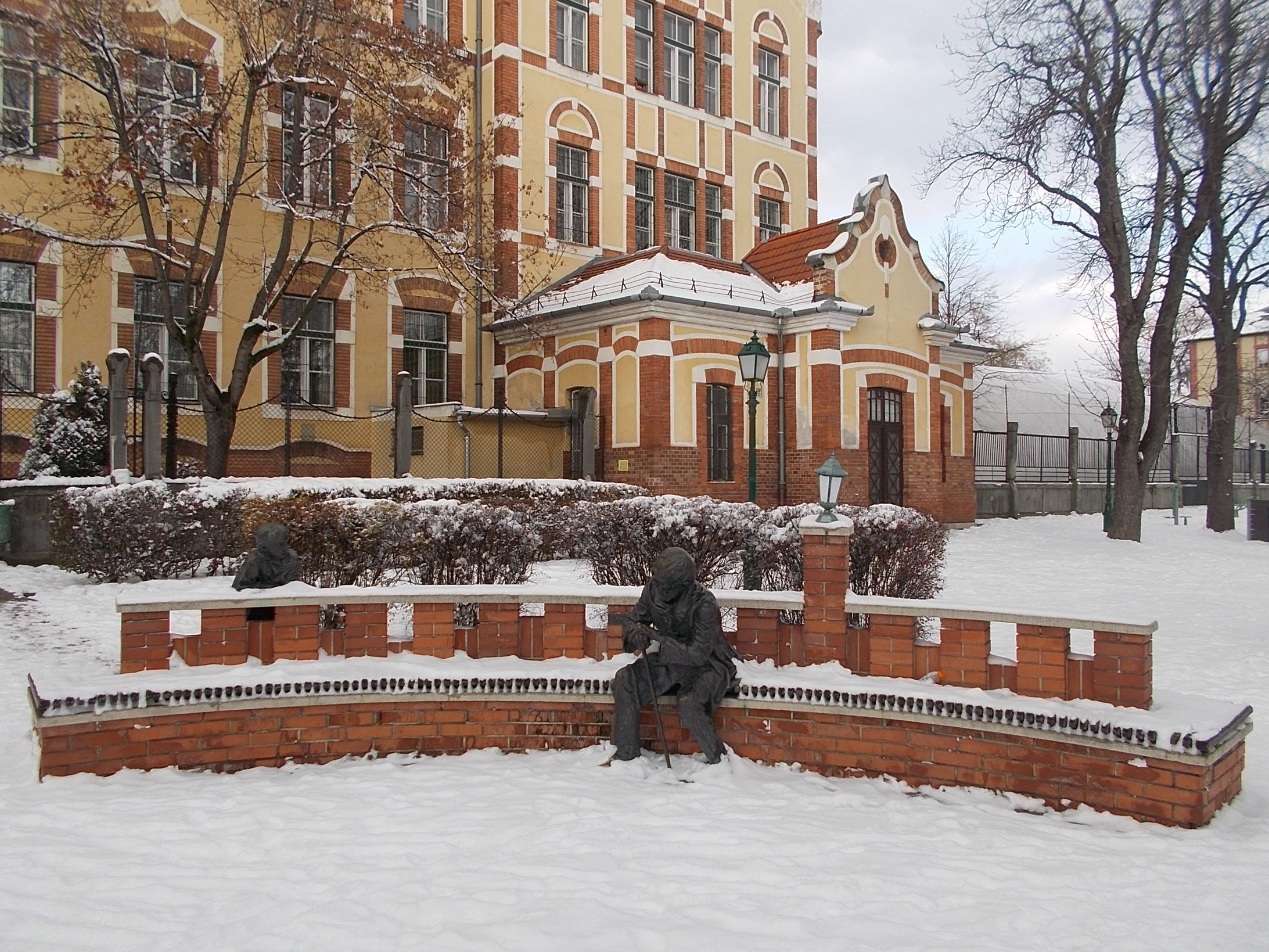 Jókai Agora by Péter Párkányi Raab and Ákos Eleőd (architect). 2000 works, created for the 175th anniversary of Jókai's birth. A brick curved bench-wall on one side the bronze sitting statue of Mór Jókai on the other side a bronze kneeling statue (a male student?) watching the poet. - Diana Street Park, Istenhegy, 12th district of Budapest.